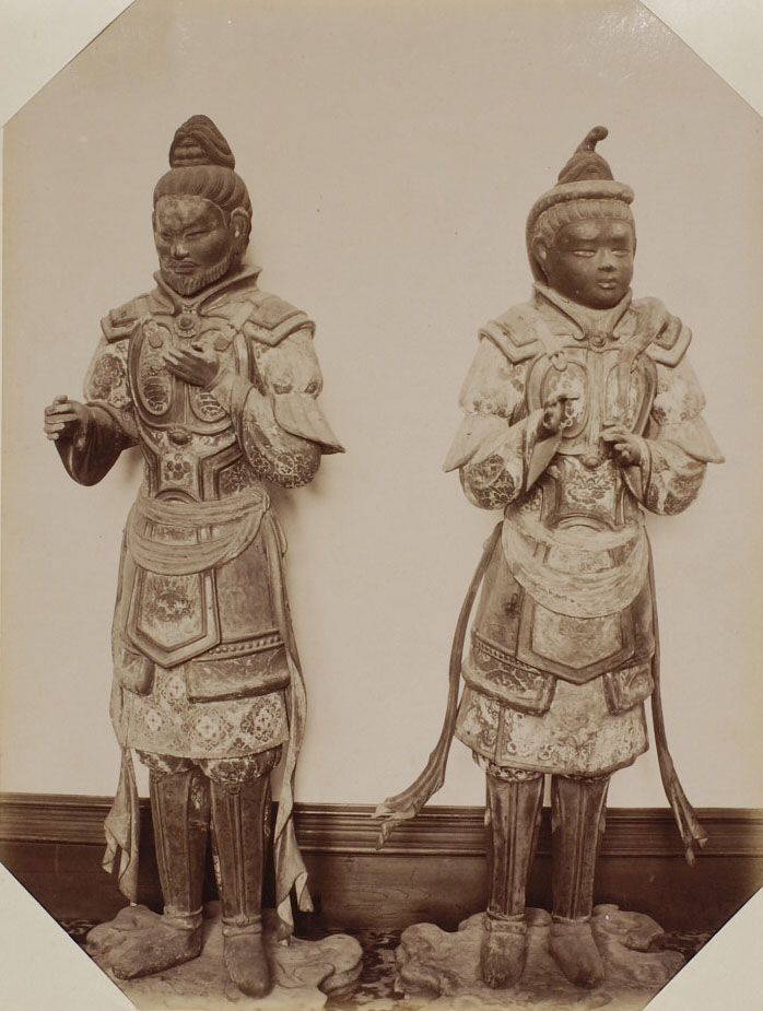 Statues of Tianlong babu